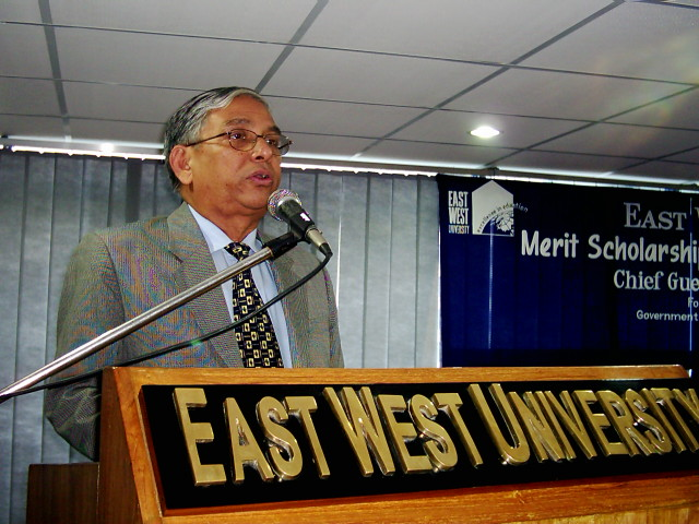 Dr. Mohammed Farashuddin, Founder VC, East West University.